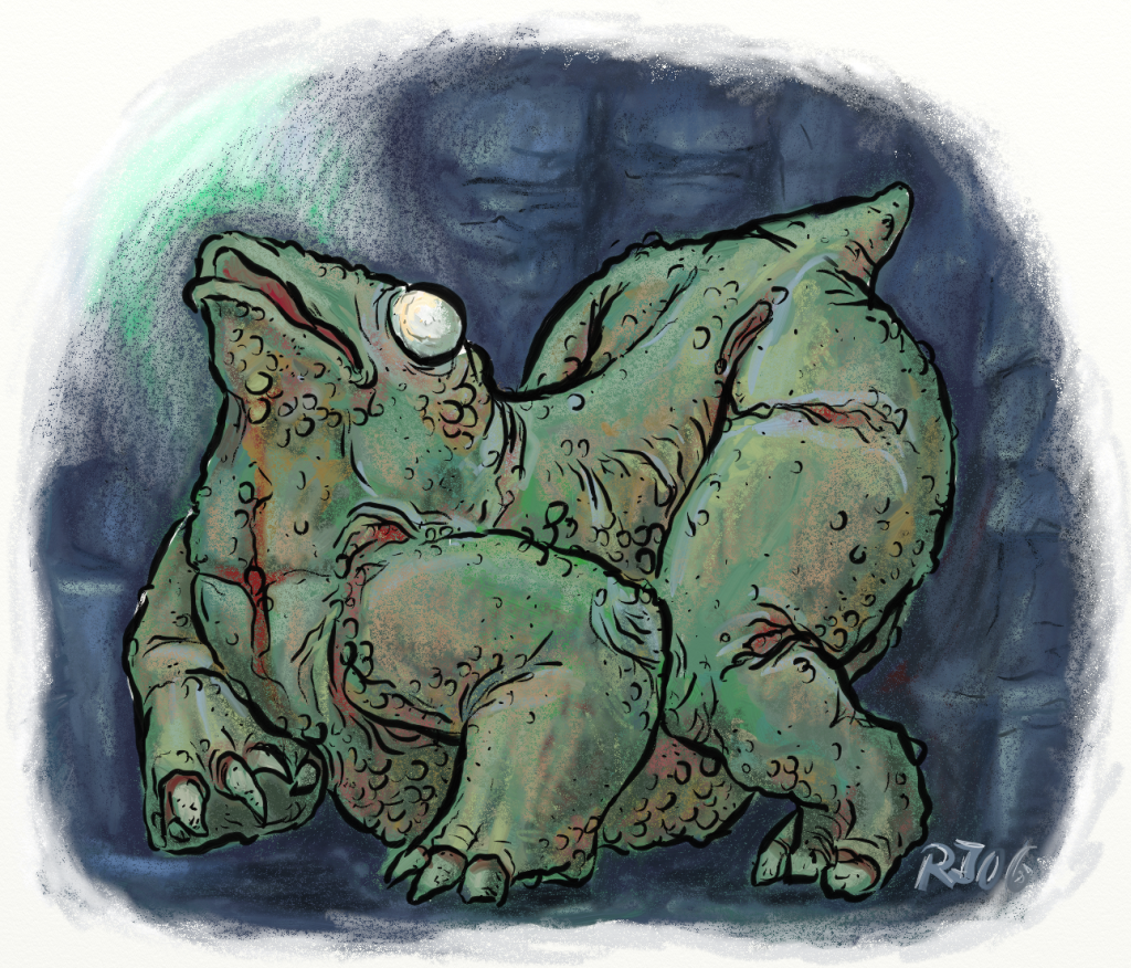 Artist's Impression of Tsathoggua a Goddess of the Cthulhu Myth